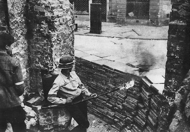 Warsaw Uprising: Insurgents from "Kiliński" Battalion on a barricade near PASTa building at 37/39 Zielona Street. One insurgent is testing a K pattern flamethrower